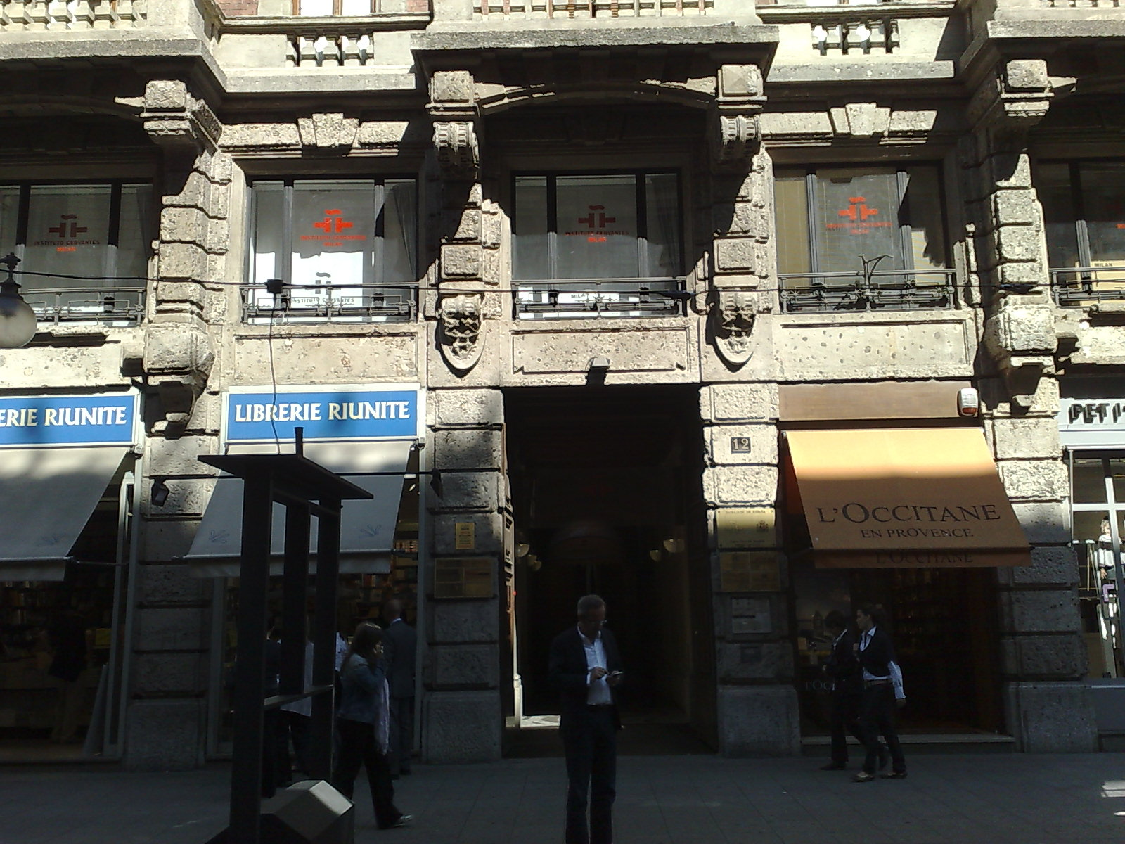 Instituto Cervantes in Via Dante, Milano